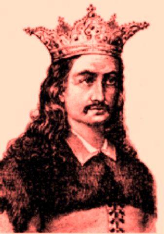 Radu cel Frumos